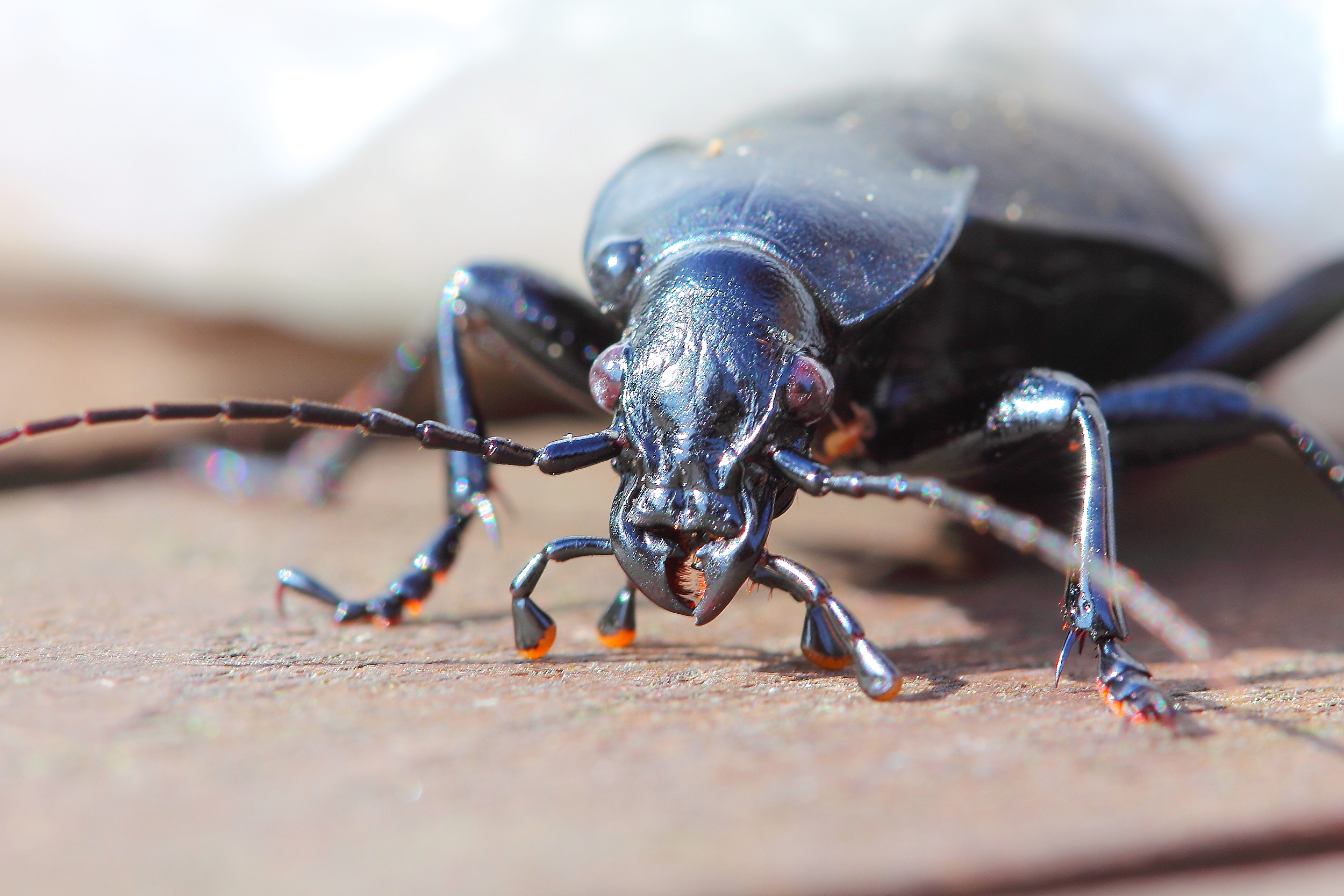 Carabus (most likely coriaceus) found alive in private garden